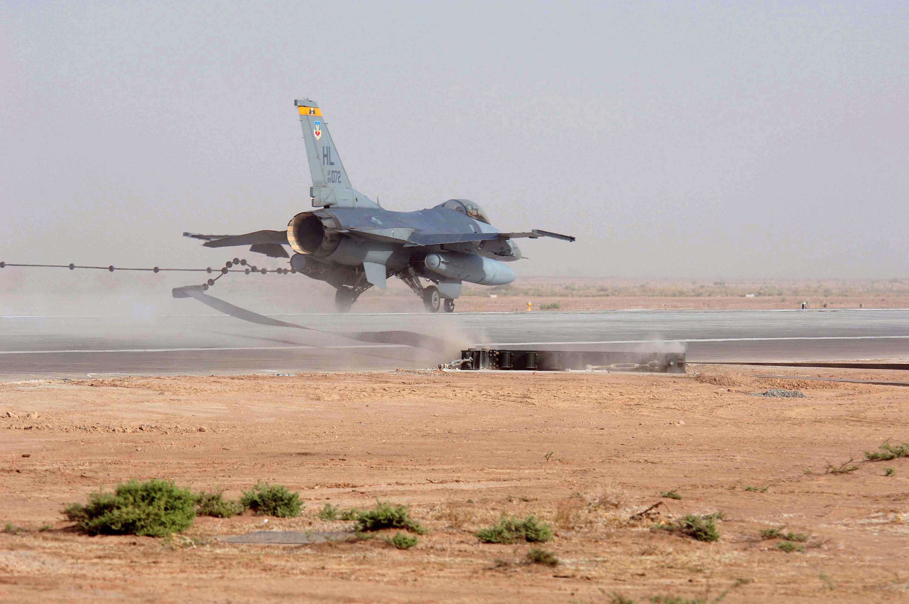 An F-16 Fighting Falcon tests the new aircraft arresting barrier at the end of the runway at Balad Air Base, Iraq.